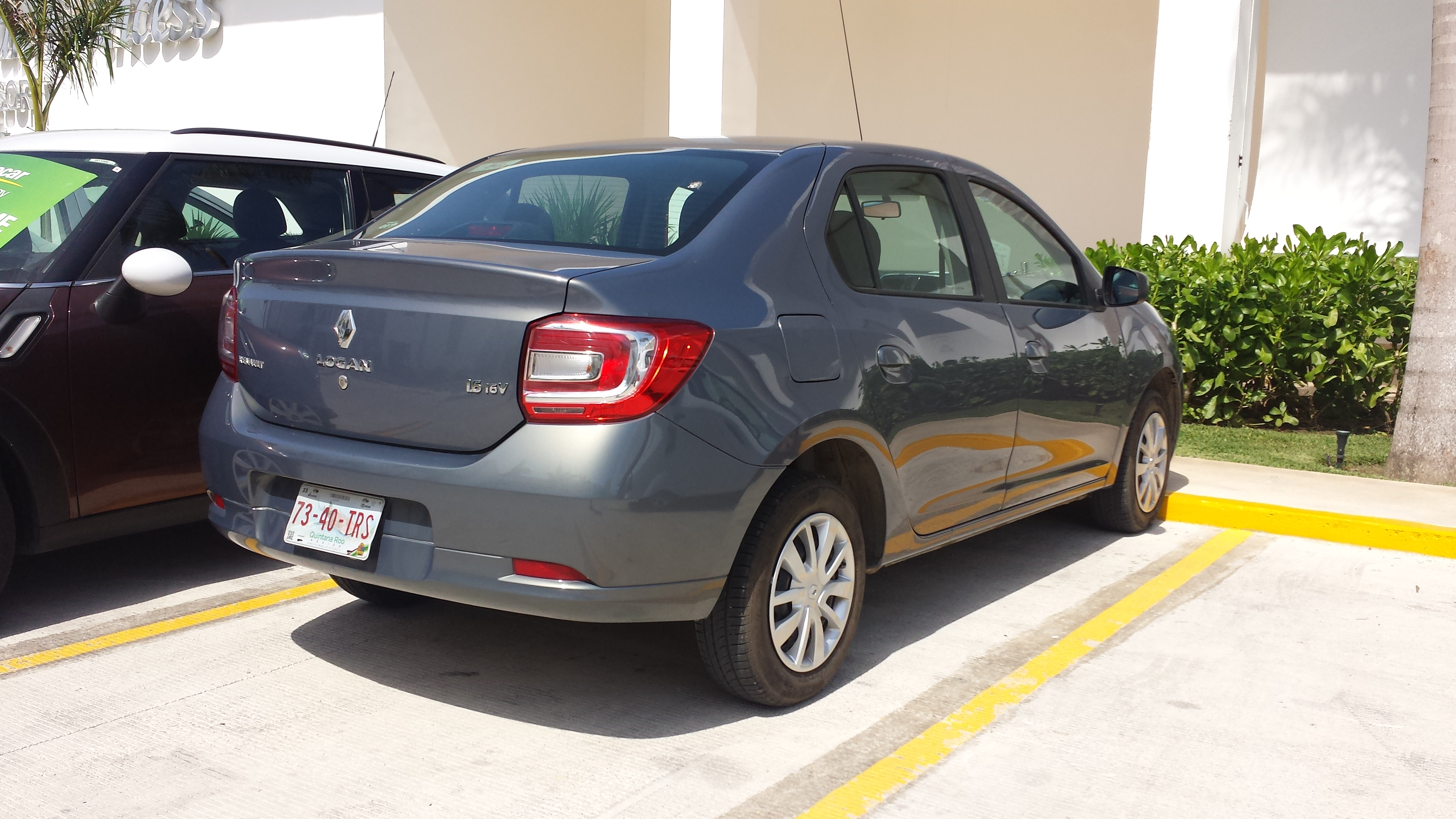 Renault Logan sedan in Mexico